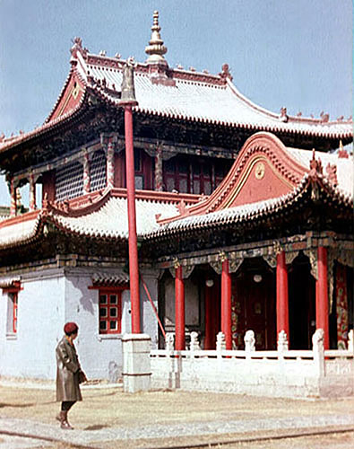 Choijin Lama Monastery (museum). Ulan Bator, Mongolia (1972)